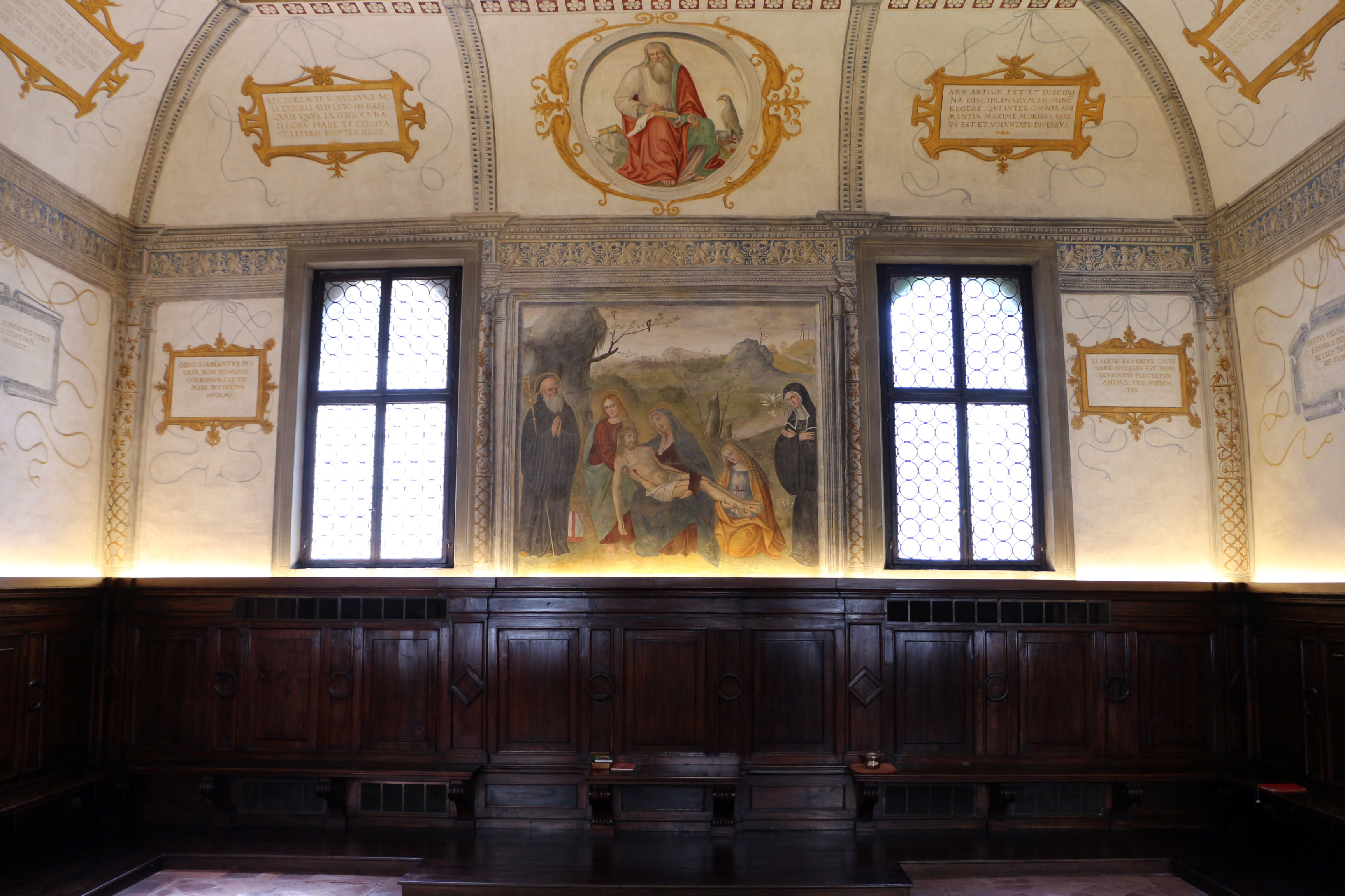 Abbazia di Pontida